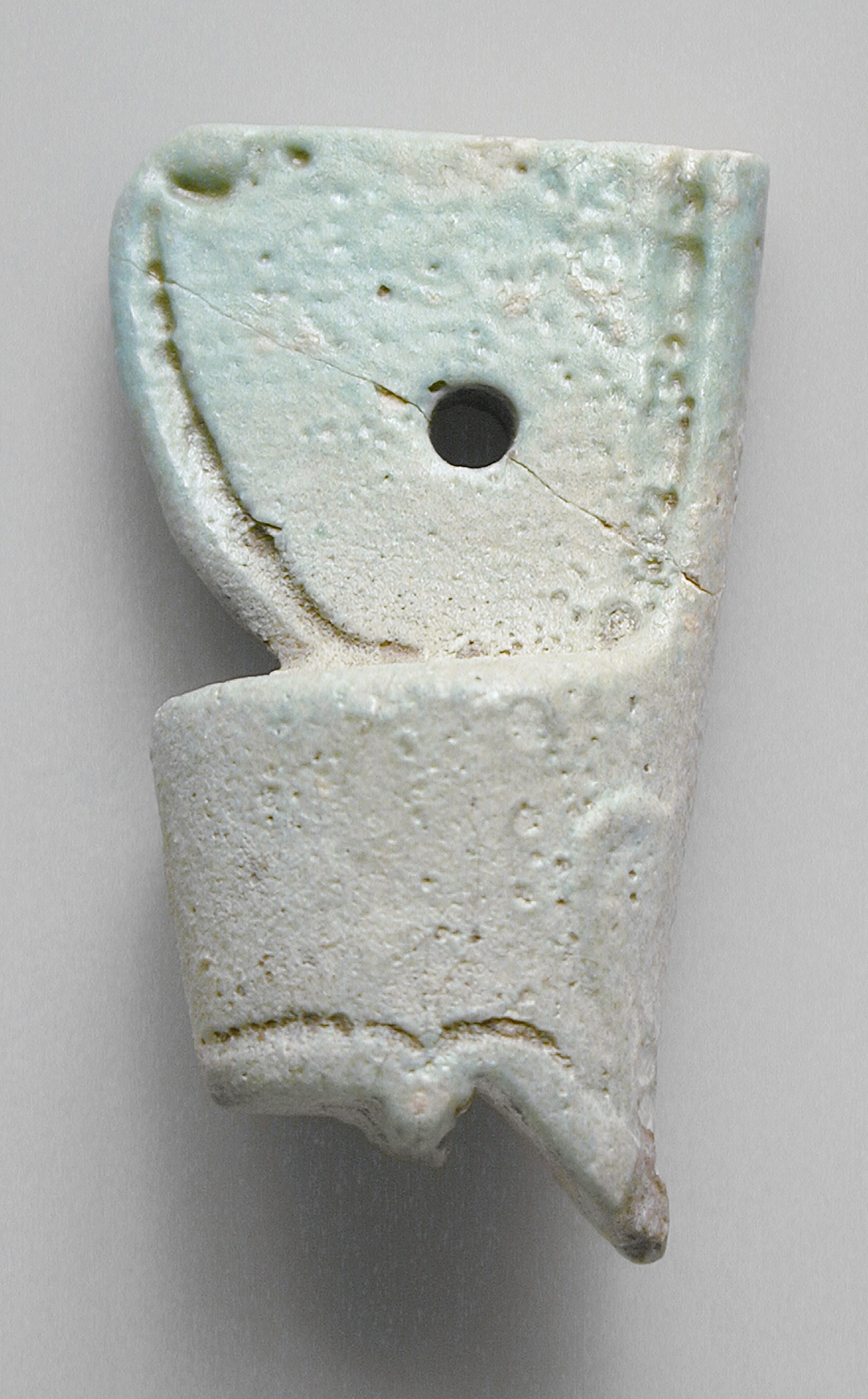 Egypt, circa 1550 - 625 BCE Jewelry and Adornments; amulets Faience Height: 1 1/4 in. (3.18 cm) Gift of Mrs. William Leon Graves (45.23.57) Egyptian Art